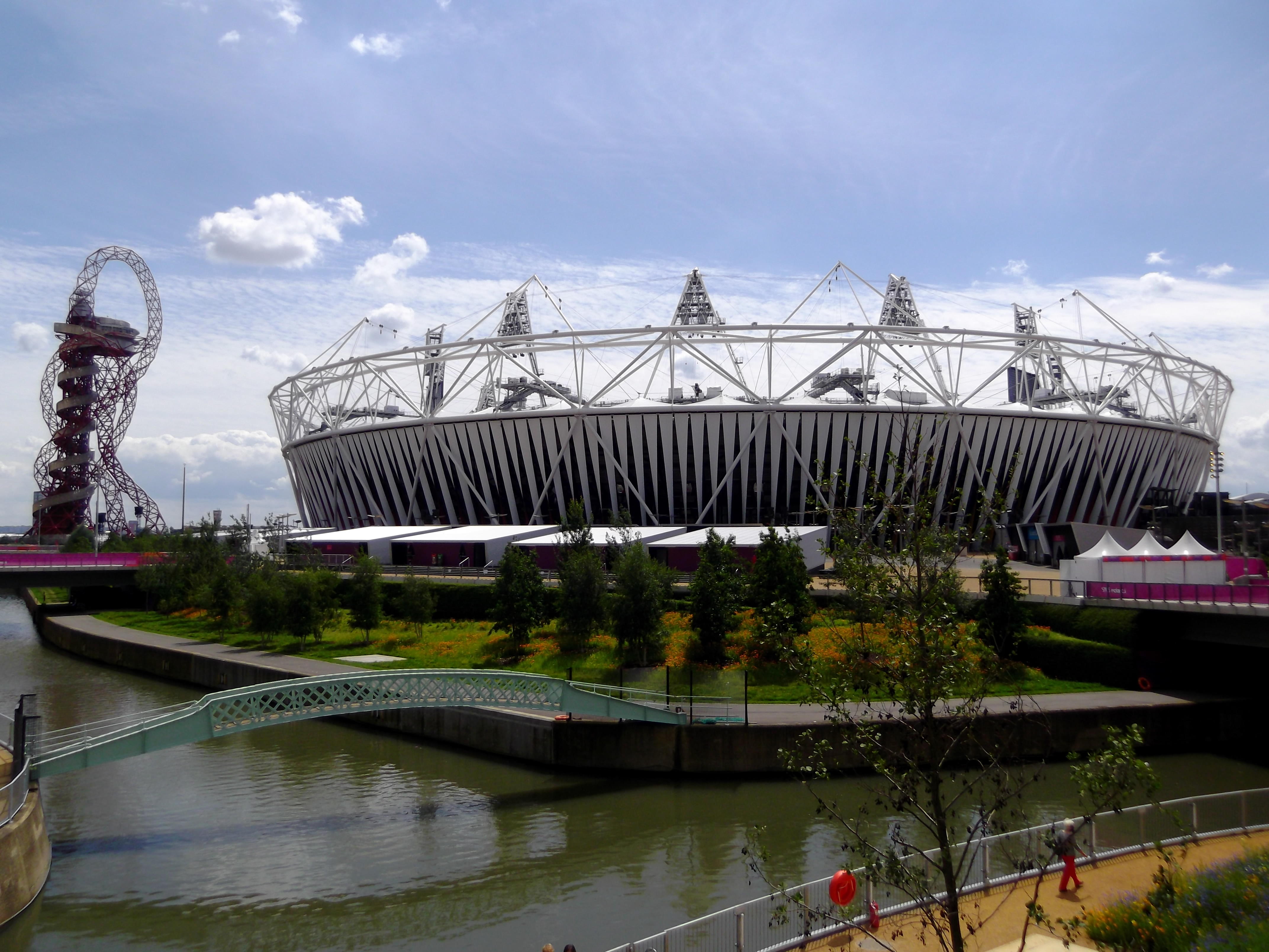 London 2012 Olympics 182 Olympic Stadium and the Orbit